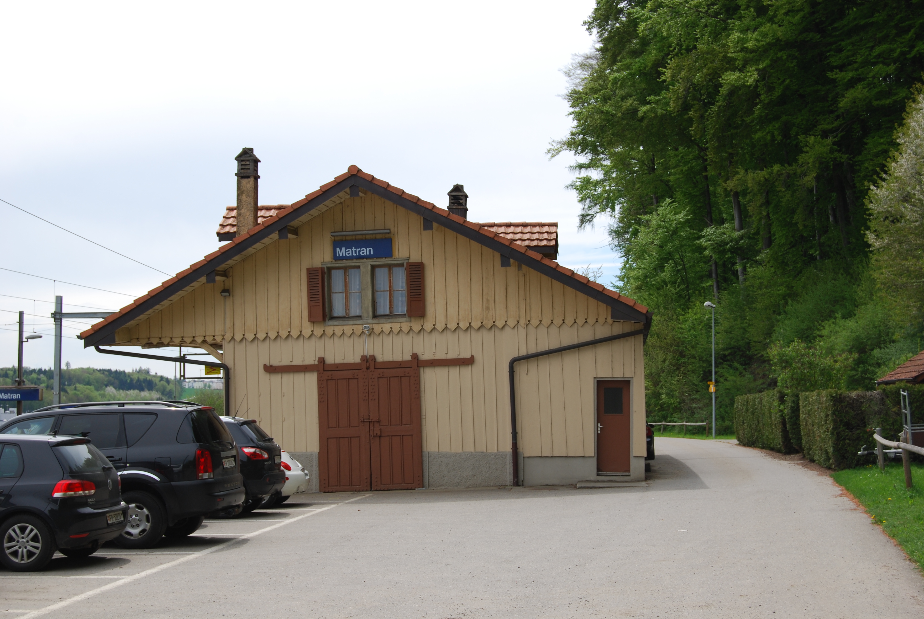 Trainstation of Matran, Matran, canton of Fribourg, Switzerland